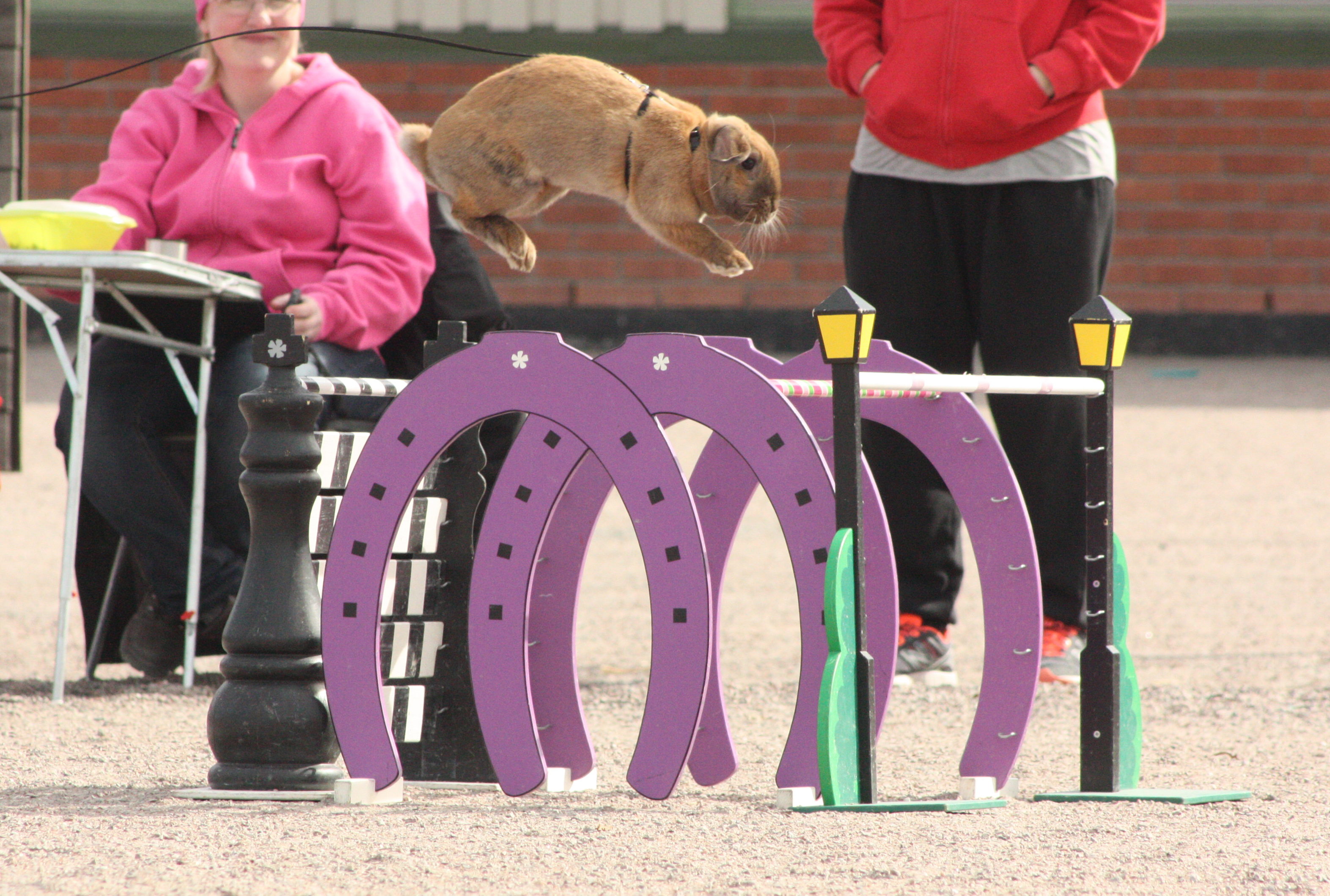 Rabbit jumping over an Elite-Class fence at a Swedish Rabbit Show Jumping Competition